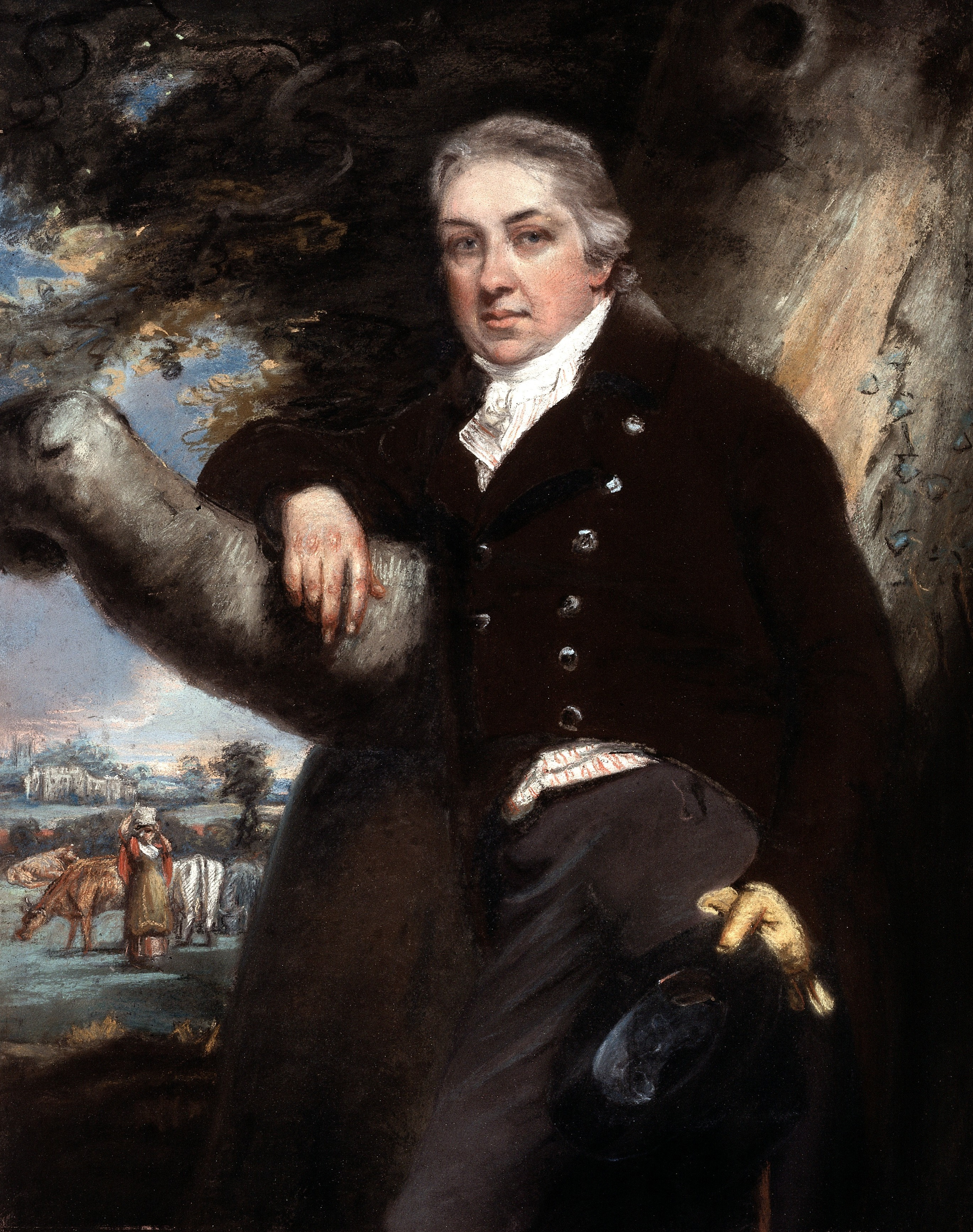 Edward Jenner on a tree